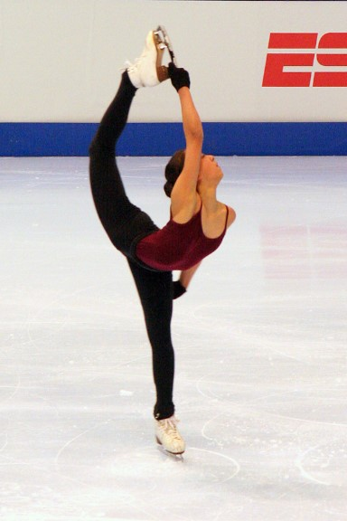 Mao Asada performs a one-hand Biellmann spin at the 2006 Skate America.